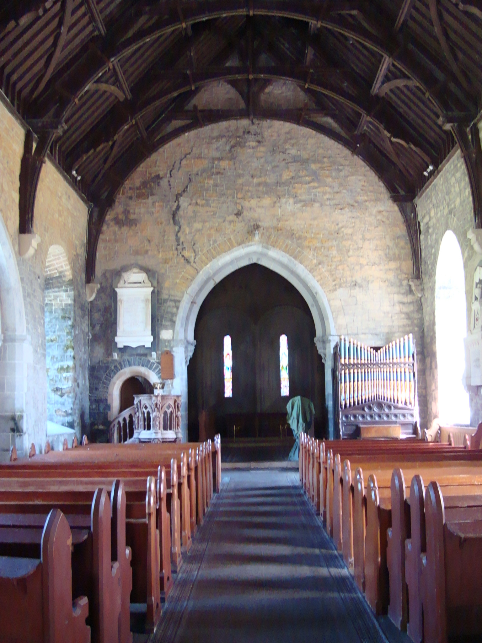 Nave of Clonfert Cathedral, looking east.